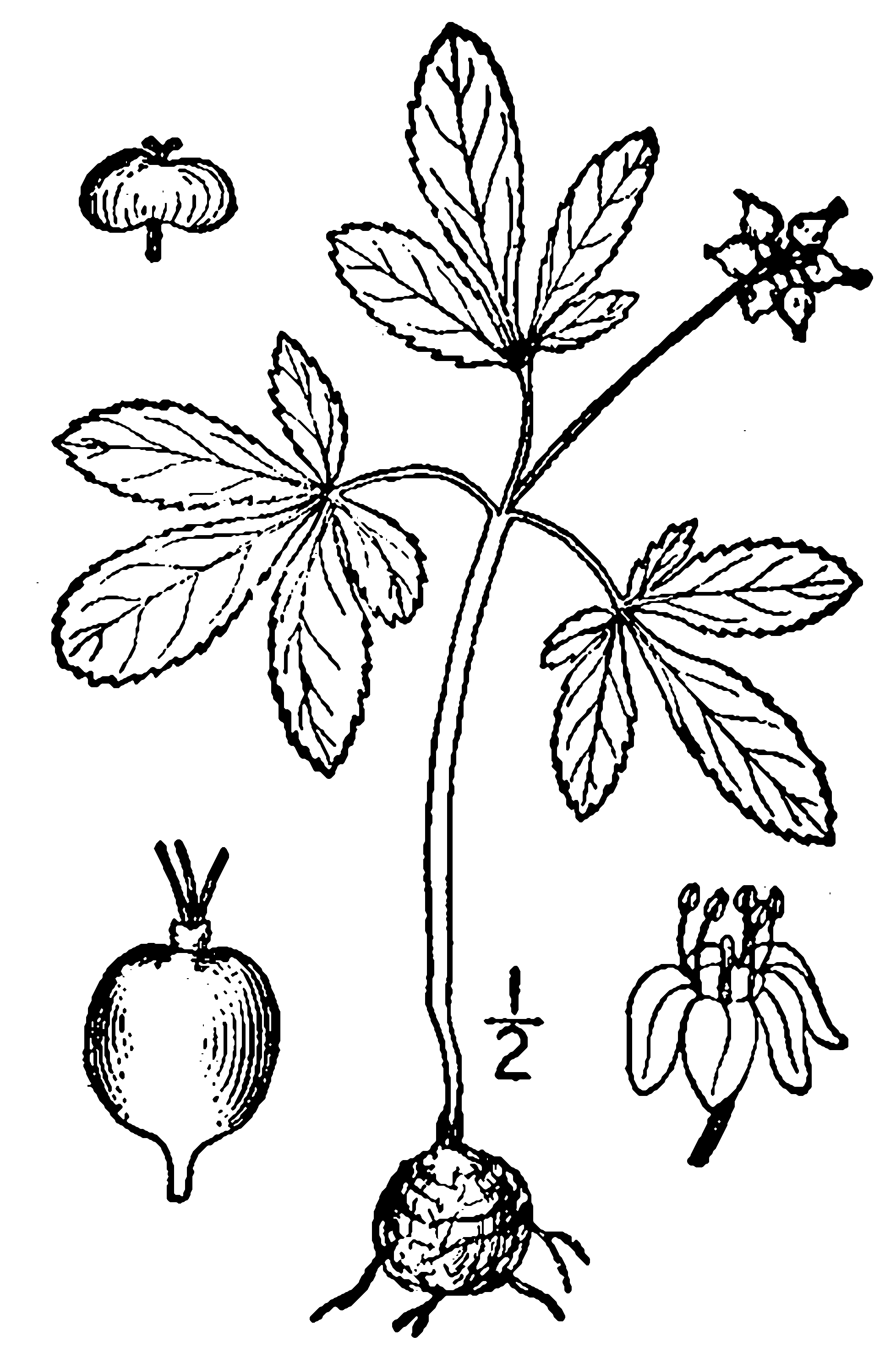 Panax trifolius, Dwarf Ginseng.